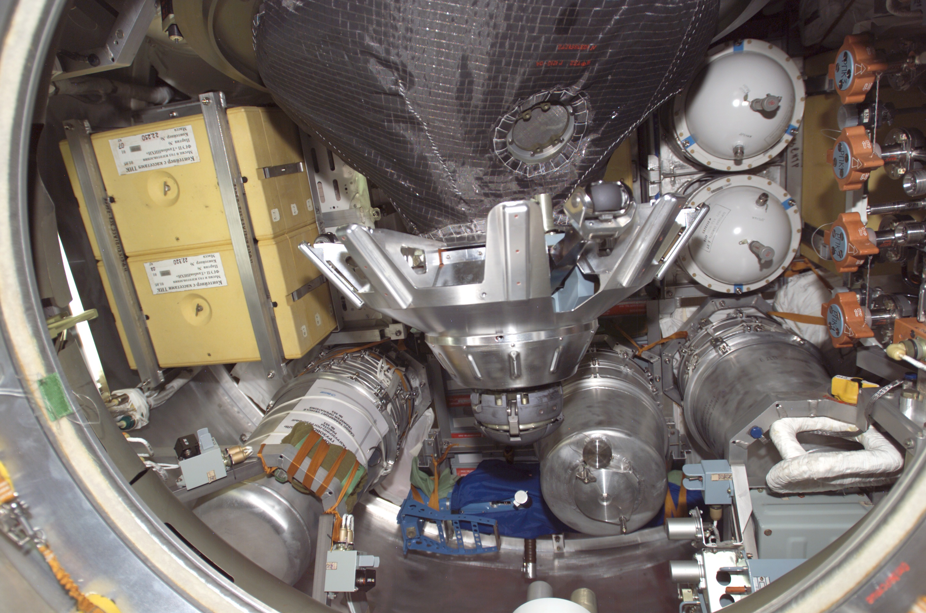 View of stowage items and the probe-and-cone docking mechanism in the hatch of the Progress 18 resupply craft, which docked to the aft port of the Zvezda Service Module of the International Space Station at 7:42 p.m. (CDT) on June 18 as the station flew approximately 225 statute miles above a point near Beijing, China. Progress delivered two tons of supplies, food, water, fuel and equipment to the Expedition 11 crewmembers onboard the station.